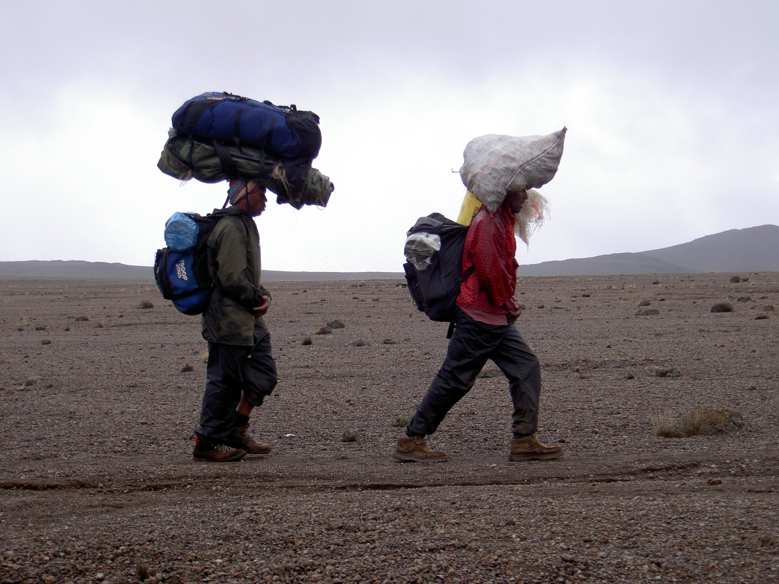 Helpers carry loads on their heads towards the top of Mt Kilimanjaro´.